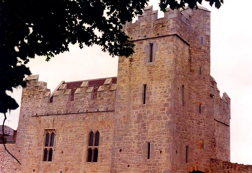 Desmond Banqueting Hall and Castle - Newcastle West's landmark feature dominates the southern of end of the Main Town Square. The banqueting hall of the Desmond Castle, seat of the Earl of Desmond, parts of which date from the 13th century, is the most notable historical feature of the town. The current Castle dates from the 15th century and during the later part of the 20th century was partly restored and is open to the public, for guided tours May to September. The guided tour is a must for locals and visitors. The area in front of the banqueting hall was the site of The Protestant Church, built in 1777.